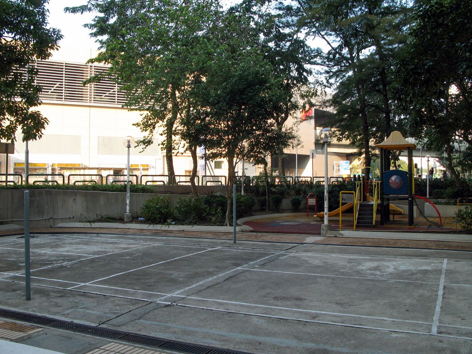 Chun Shek Estate Badminton Court